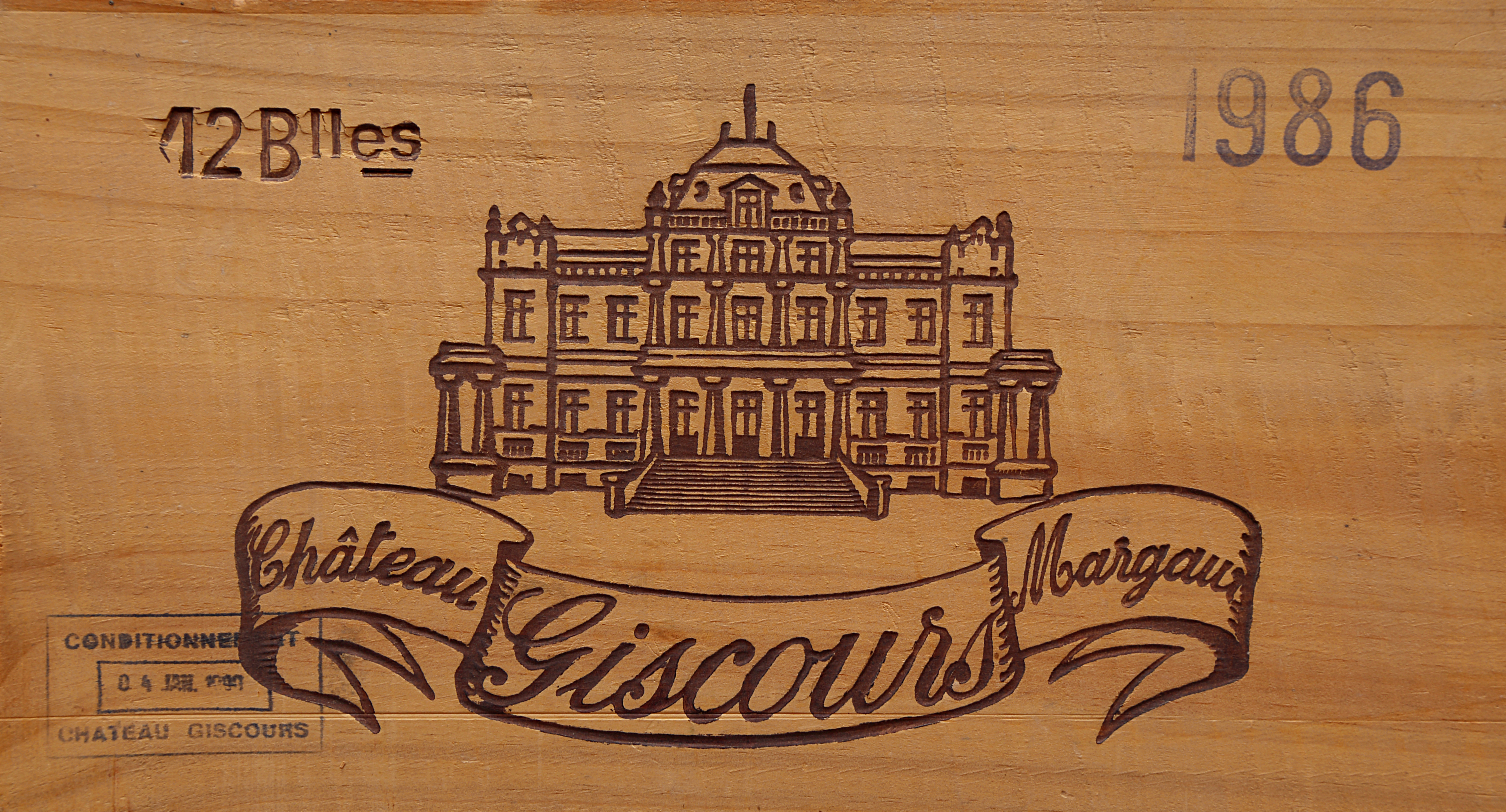 Part of a wooden crate of Château Giscours 1986, picture taken in Belgium.